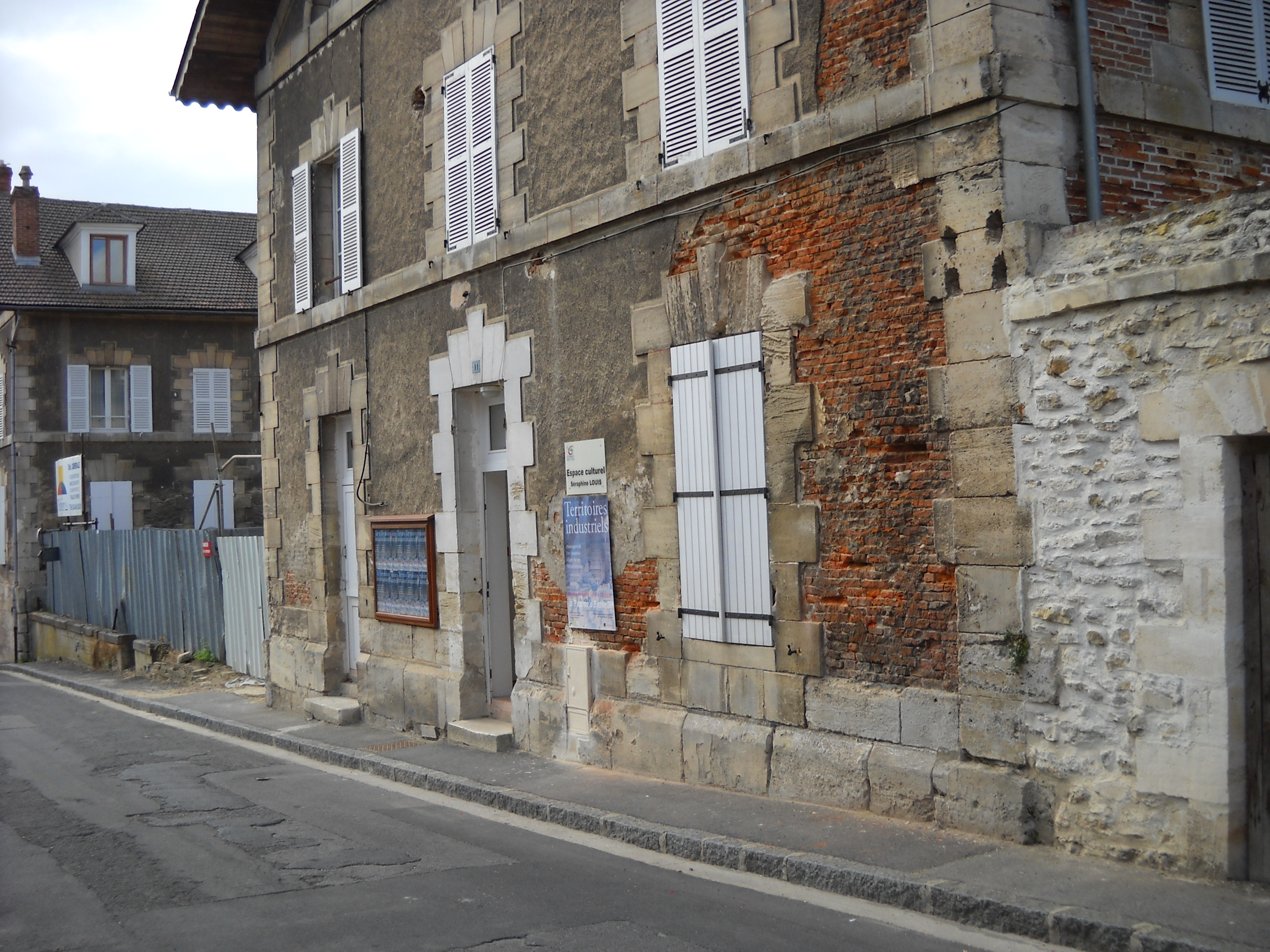 The city's cultural center of Clermont, Oise, France.